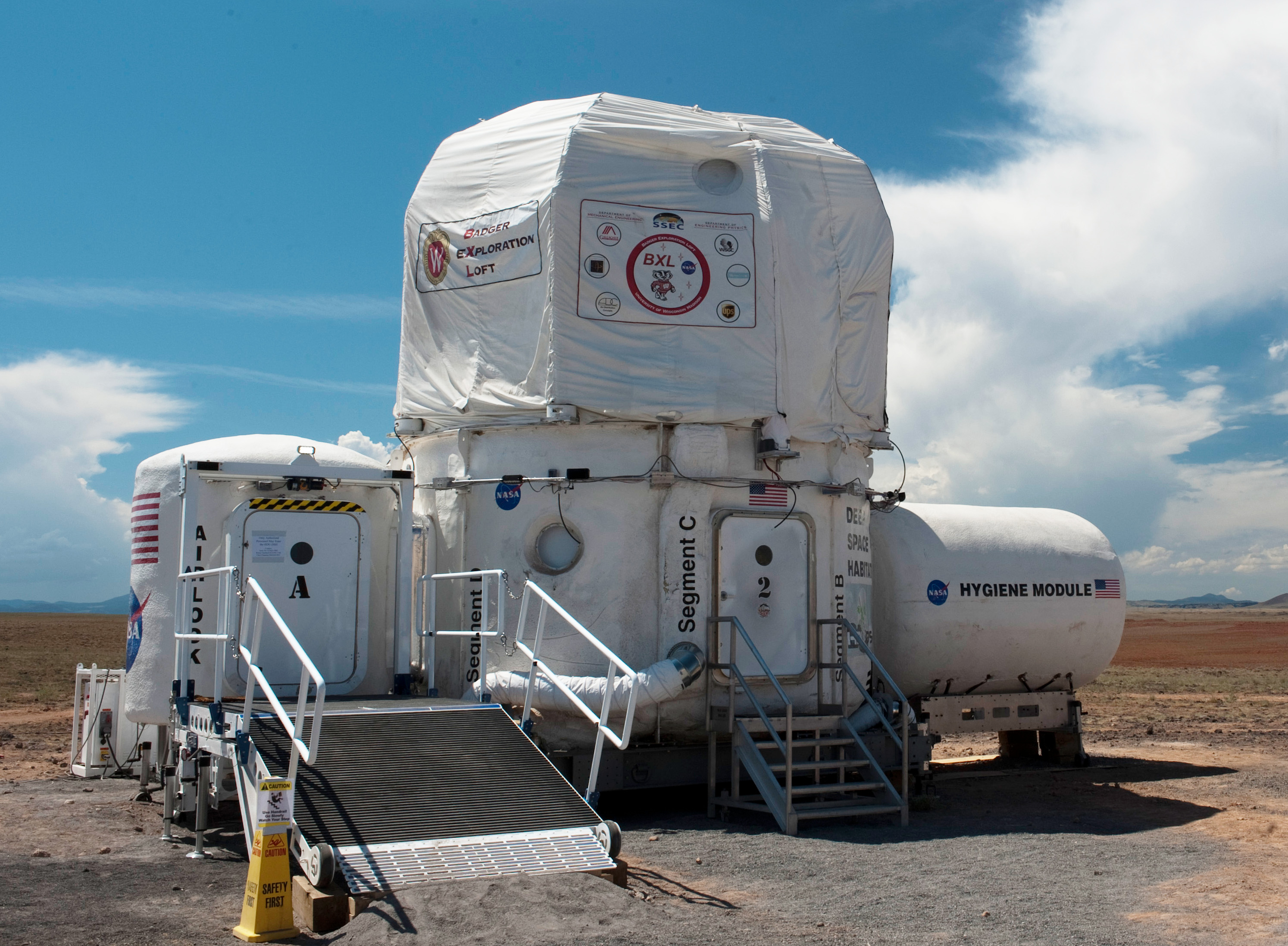 This year's version of the Habitat Demonstration Unit -- the Deep Space Habitat -- with the student-built X-Hab loft on top, a hygiene compartment on one side and airlock on the other.